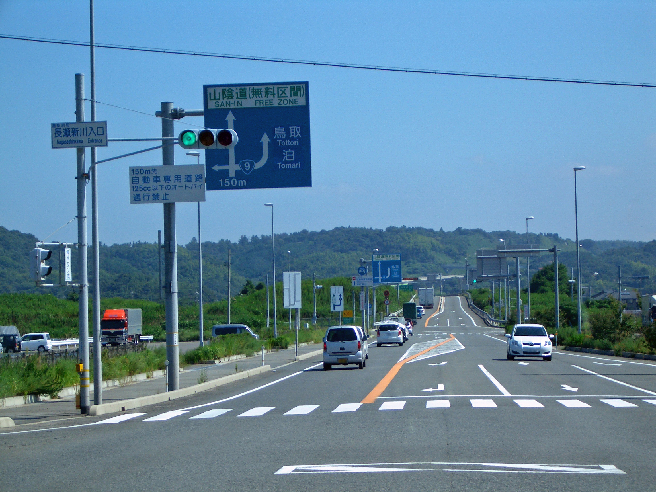 Near the Hawai IC of Sanin Expressway.